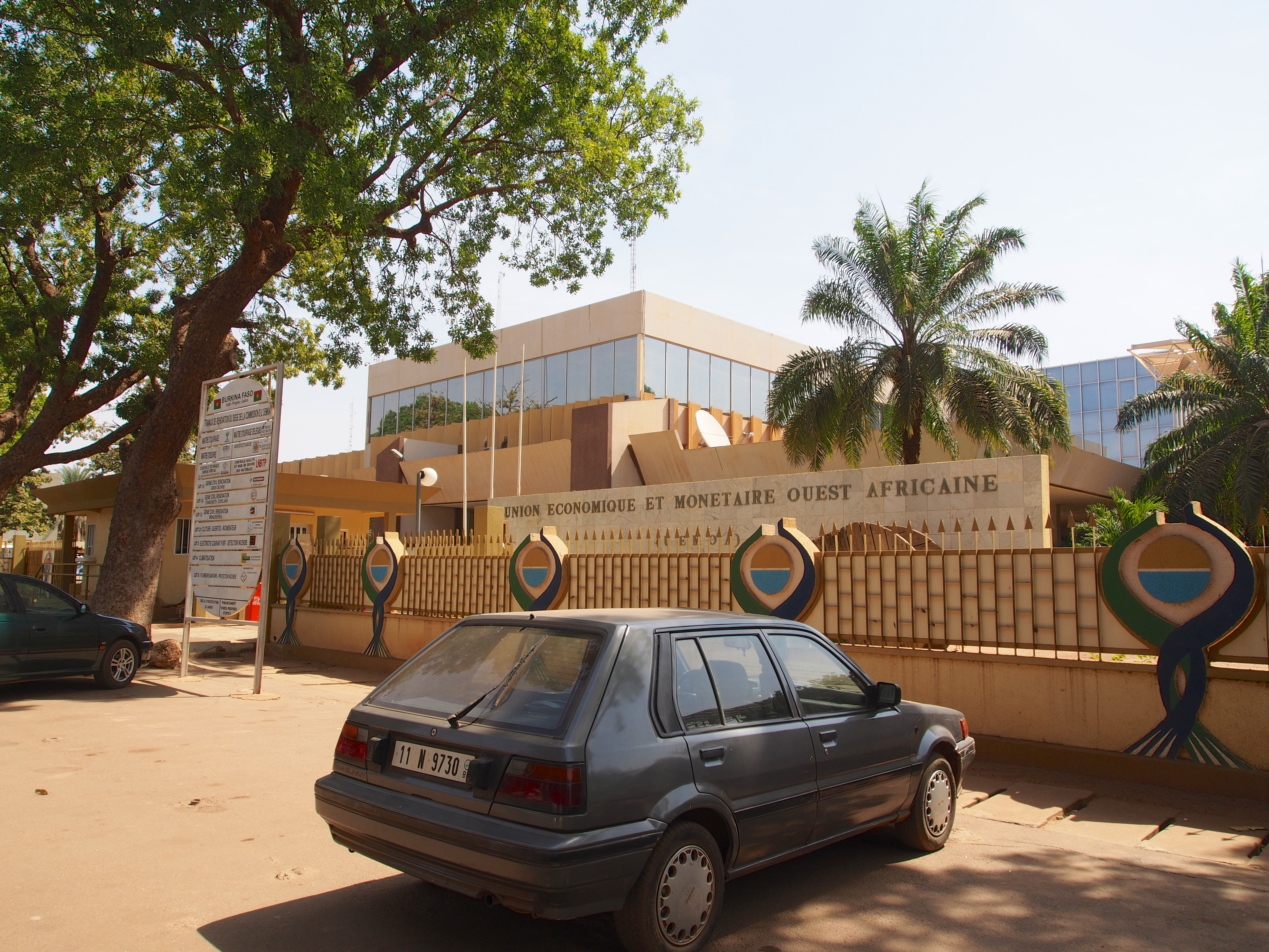 UEMOA local headquarter in Ouagadougou, Burkina Faso